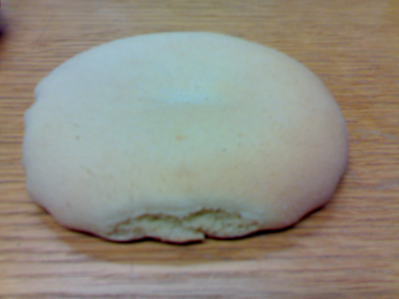 This is a "jødekake" (Norwegian)